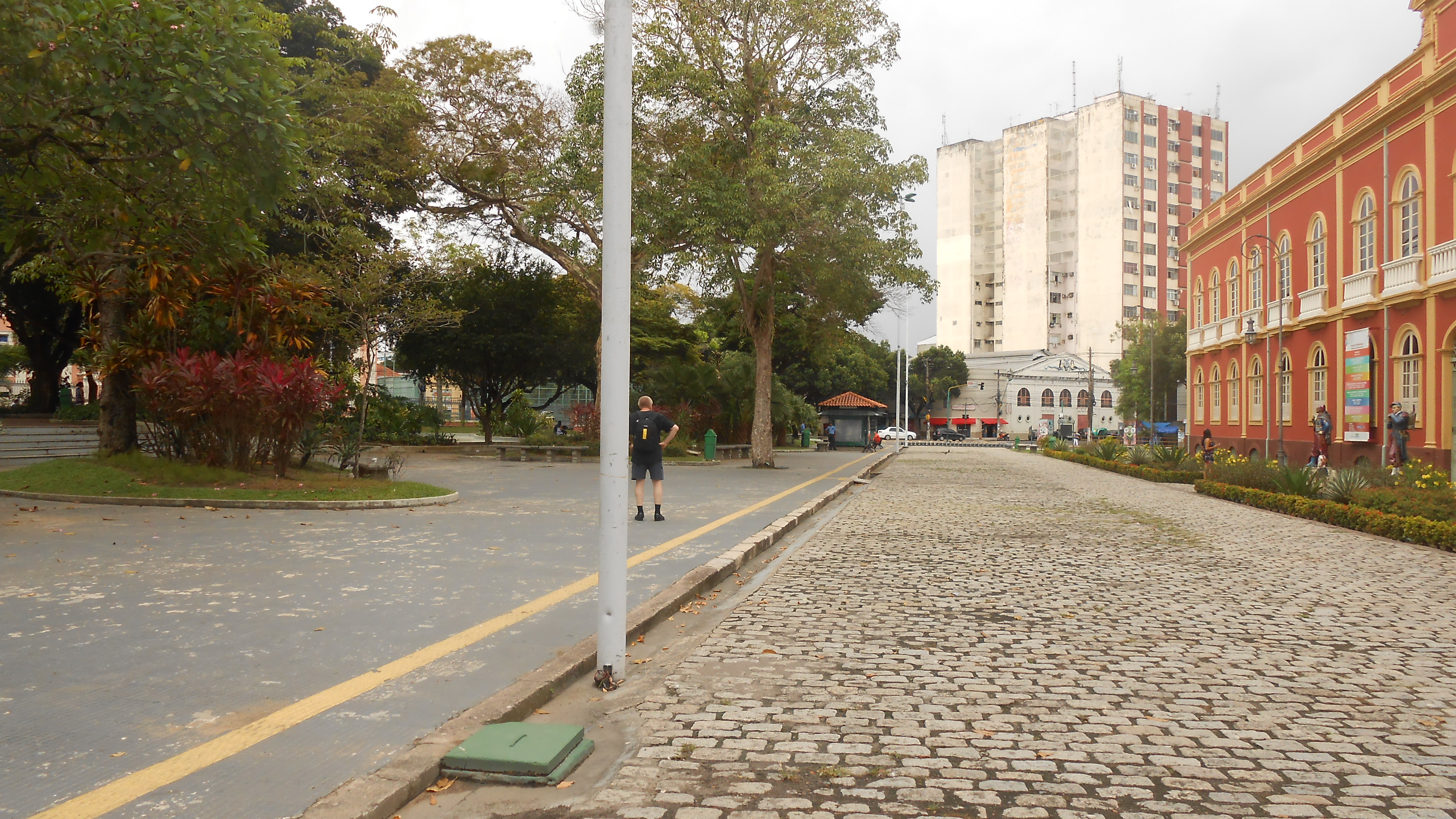 The Palacete Provincial from 1861, today home of various museums of the city of Manaus..